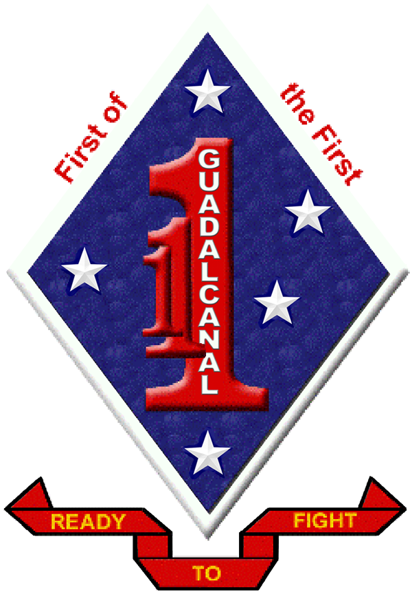 United States Marine Corps 1st Battalion, 1st Marines insignia. Modified version of the image found on the unit's website. Made with Photoshop.